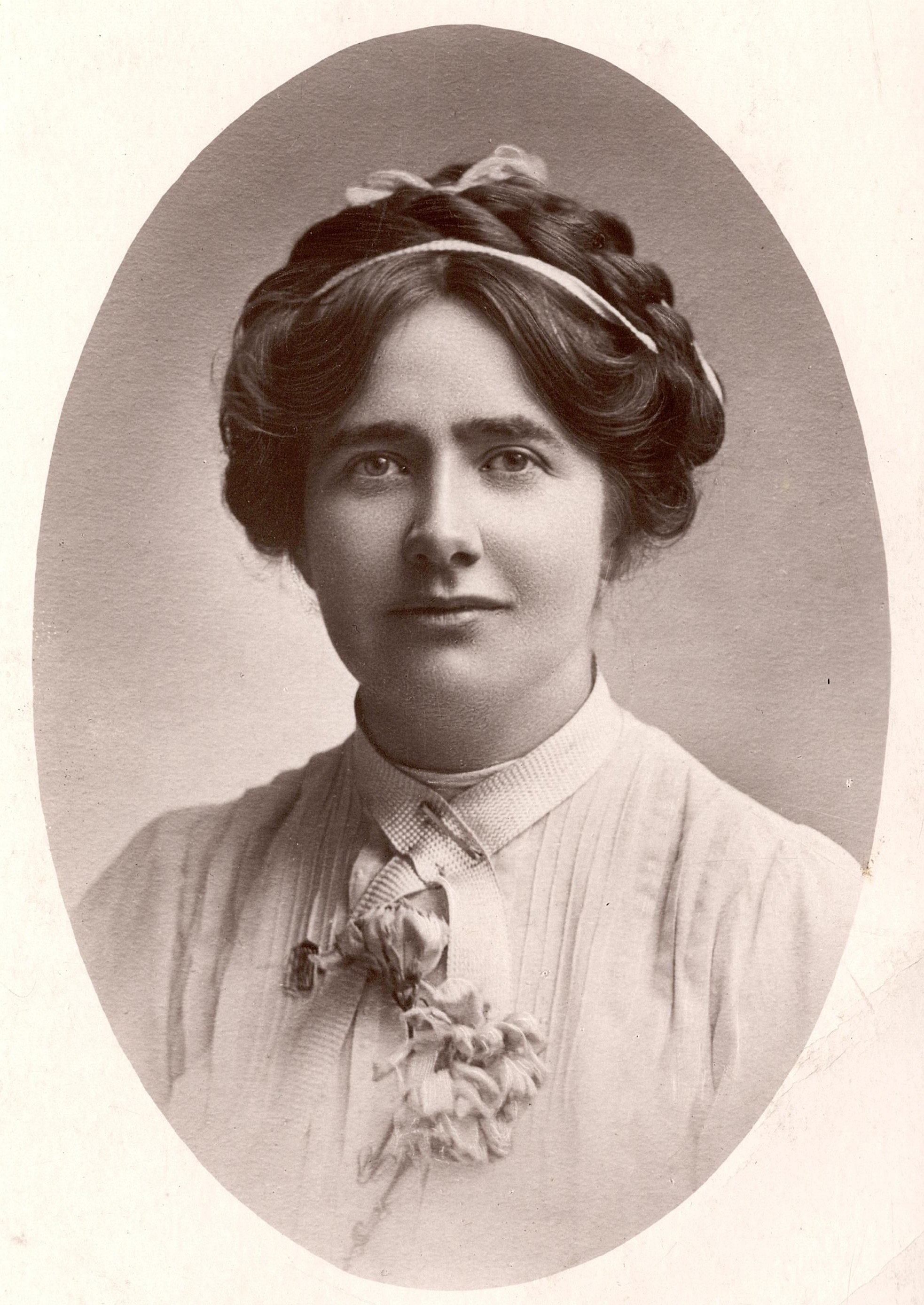 Teresa Billington-Greig (15 October 1877, Preston, Lancashire – 21 October 1964) was a suffragette who helped create the Women's Freedom League. TWL 2002 678 - maybe 1910?